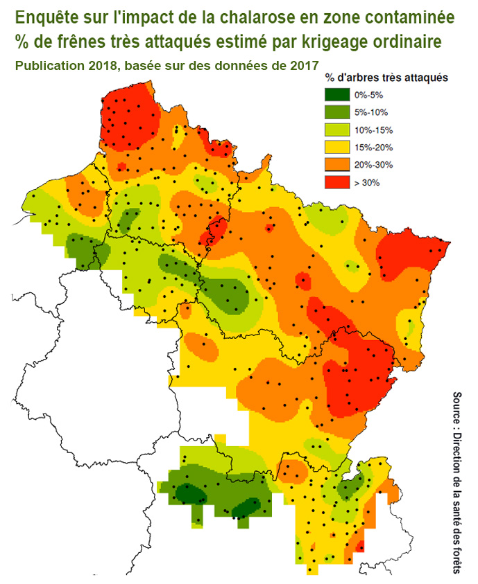 Map of trees infected by Hymenoscyphus fraxineus in France in 2017 ; this pathogen is an Ascomycete fungus that causes "ash dieback", a chronic fungal disease of ash trees in Europe characterised by leaf loss and crown dieback in infected trees. The fungus was first scientifically described in 2006 under the name Chalara fraxinea. Four years later it was discovered that Chalara fraxinea was only the asexual (anamorphic) stage of a fungus that was subsequently named Hymenoscyphus pseudoalbidus and then renamed as Hymenoscyphus fraxineus.